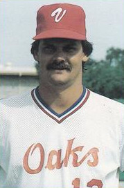 Professional baseball coach Gorman Heimueller